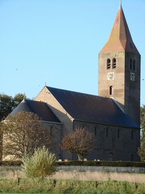 oosterland in Wieringen (NH), church